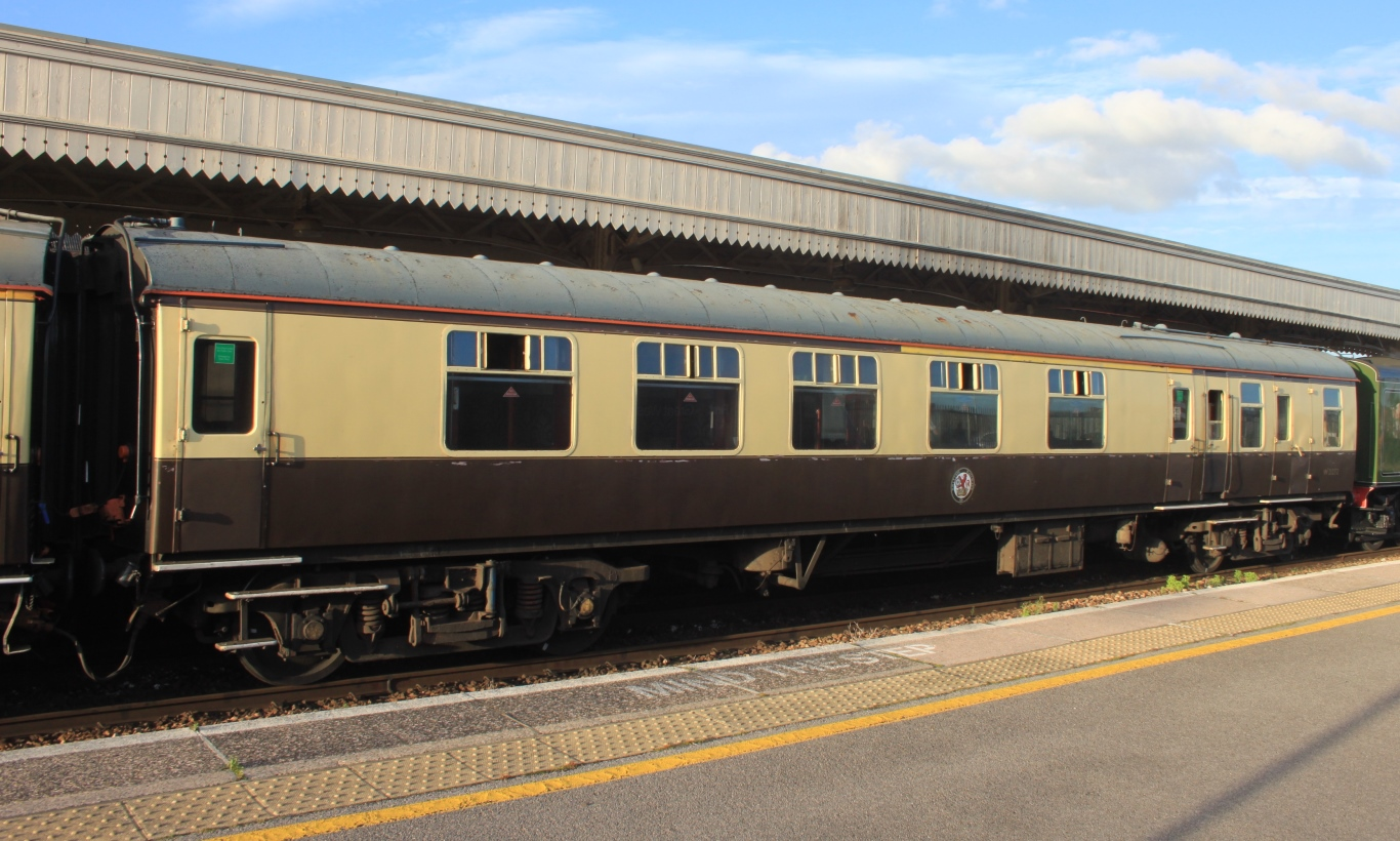 British Rail Mark 1 BCK (Brake Composite Corridor) 21272, now operated by Riviera Trains, in a northbound service at Taunton.